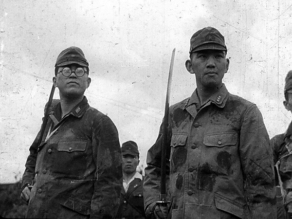 Giretsu Kuteitai - Captain Okuyma, commanding officer of the Giretsu Kuteitai, and Captain Watabe before their departure to Okinawa. May 24, 1945.